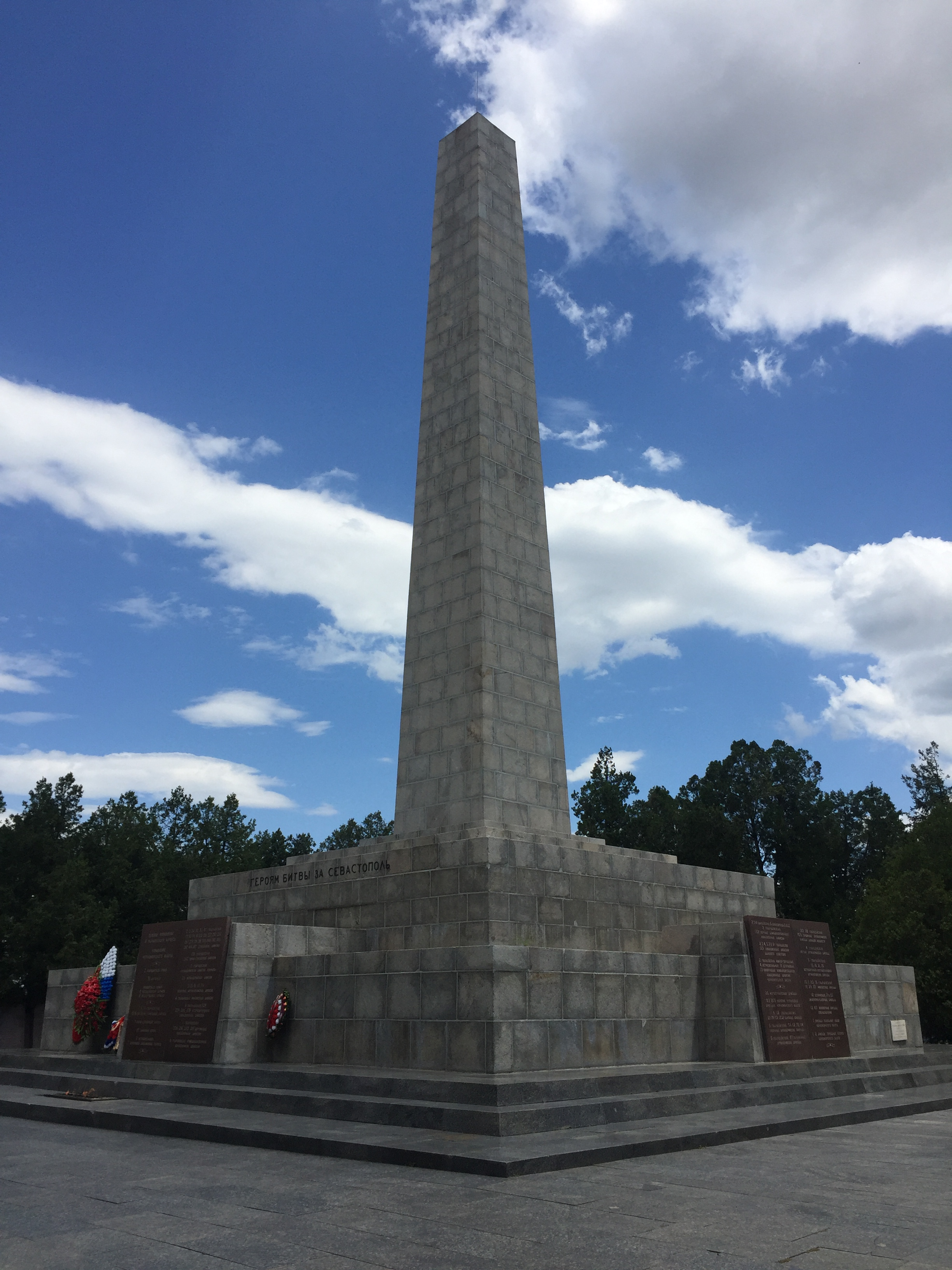 The monument is mounted on the Sapun Mountain. The neighborhood of the city of Sevastopol.